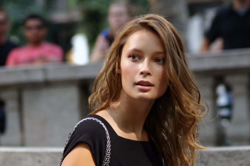 Estonian model Tiiu Kuik in Bryant Park during the Mercedes-Benz Fashion Week show in New York City